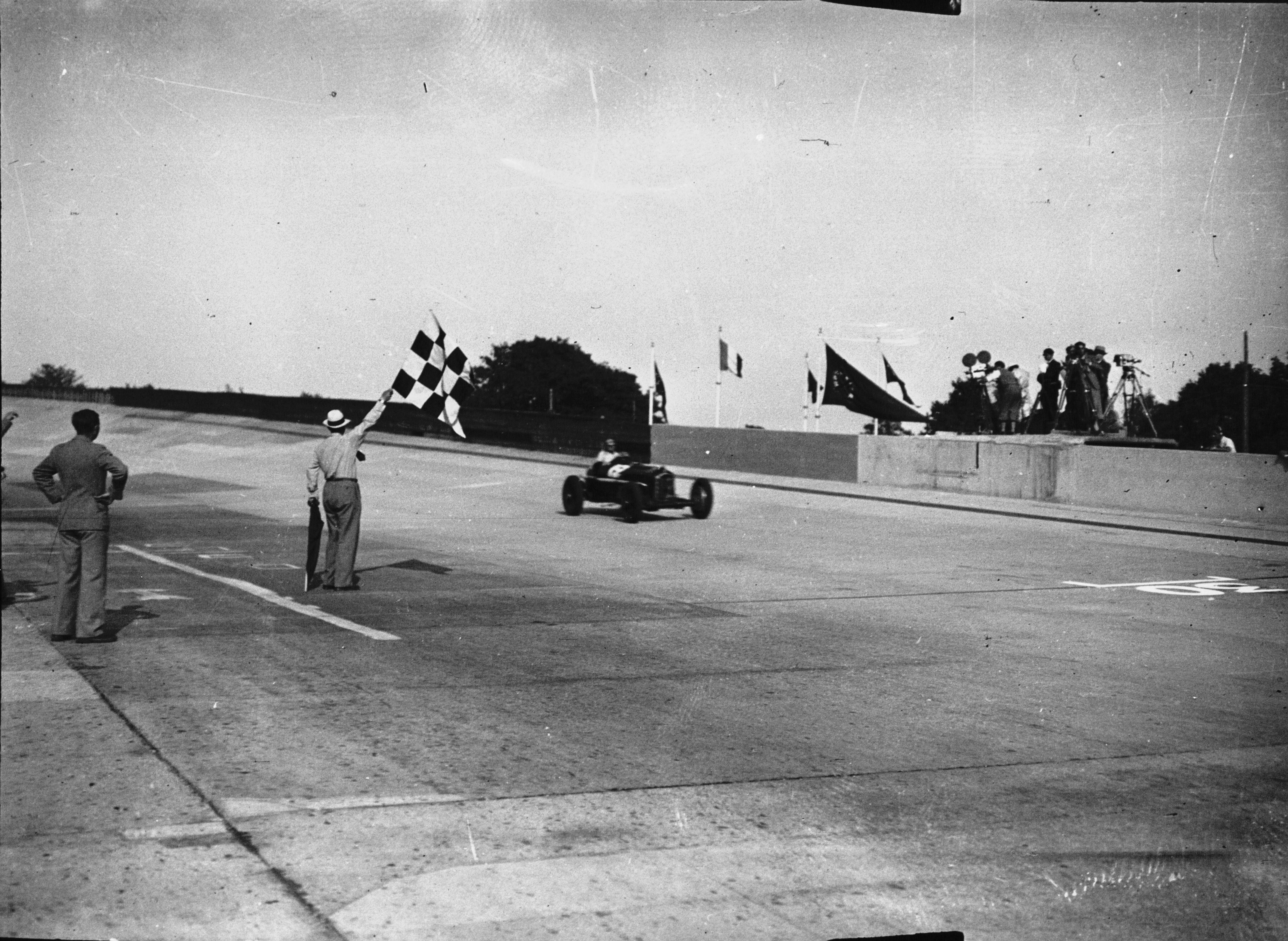 Louis Chiron winning the 1934 French Grand Prix